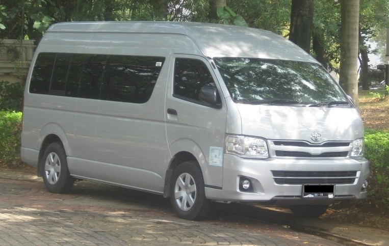 2013 Toyota Hiace Commuter (KDH200), photographed in Jakarta, Indonesia.